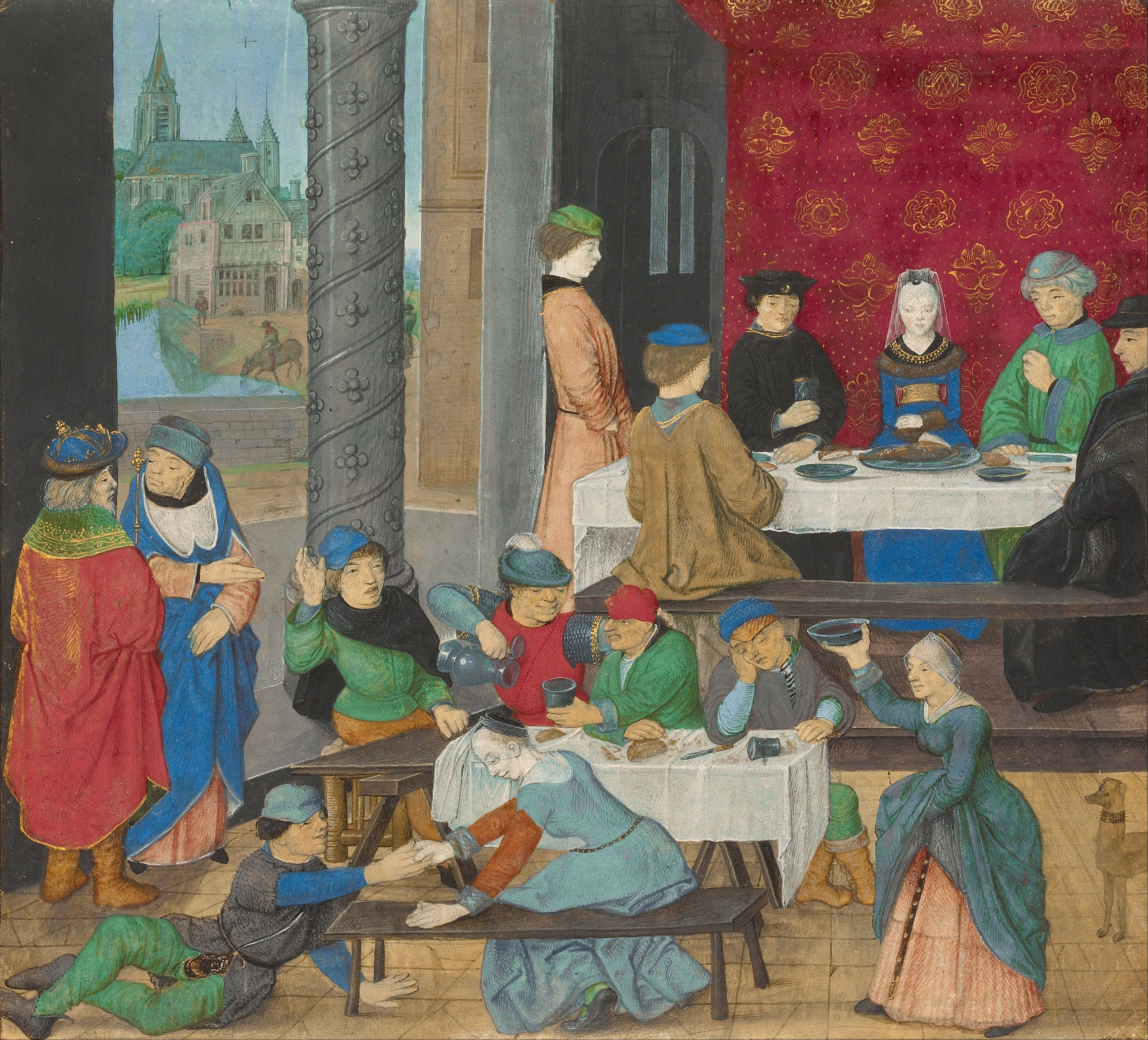 The Memorable Deeds and Sayings of the Romans, a compilation of stories about ancient customs and heroes written in the first century A.D. by Valerius Maximus, was widely used in the Middle Ages as a textbook for rhetoric. The museum's cutting comes from a French translation of the original Latin text made for Jan Crabbe, abbot of the Cistercian Abbey at Duinen, south of Bruges. This large miniature appeared at the beginning of book two, Concerning Morals and Customs. In a spacious dining hall, Valerius, dressed in blue on the left, instructs the Emperor Tiberius, to whom he dedicated his book, on the value of temperance. Valerius points out the joyous and intemperate peasants at the front table, who cavort wildly, drink, fall down, and sleep. In contrast, the nobles in the back are models of temperance: evenly spaced at the orderly table, their bodies rigid, they eat with great sobriety. Through this contrast the illuminator suggested that nobles are inherently more temperate, an interpretation that does not derive from the text. Yet in the hands of the witty Master of the Dresden Prayer Book, the bad example of the pleasure-loving peasants is easily the more endearing one.